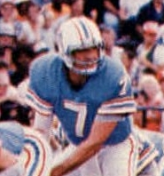 Houston Oilers quarterback Dan Pastorini calling signals during the 1978 AFC Wild Card game.